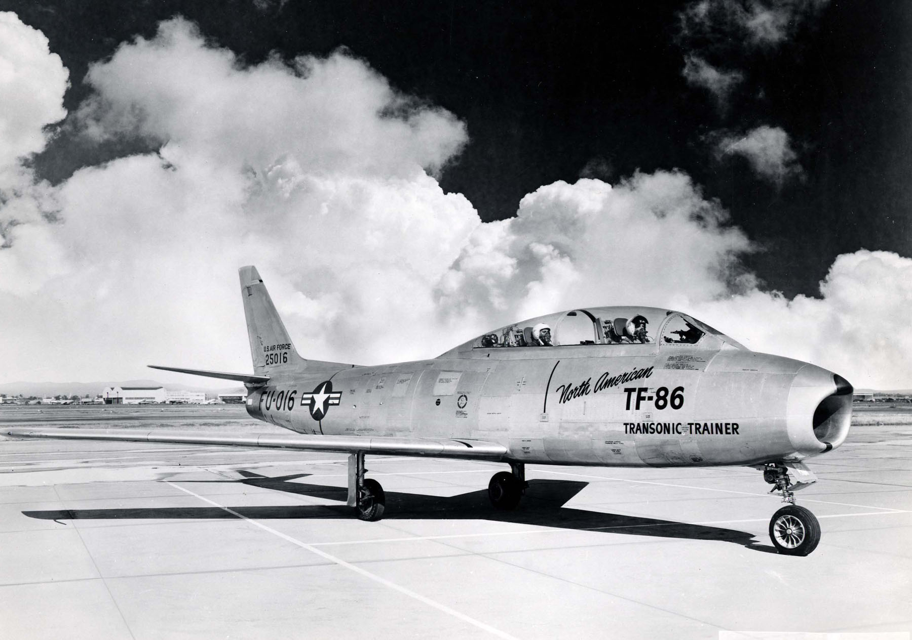 Two-seat transonic trainer variant of North American's TF-86 Sabre